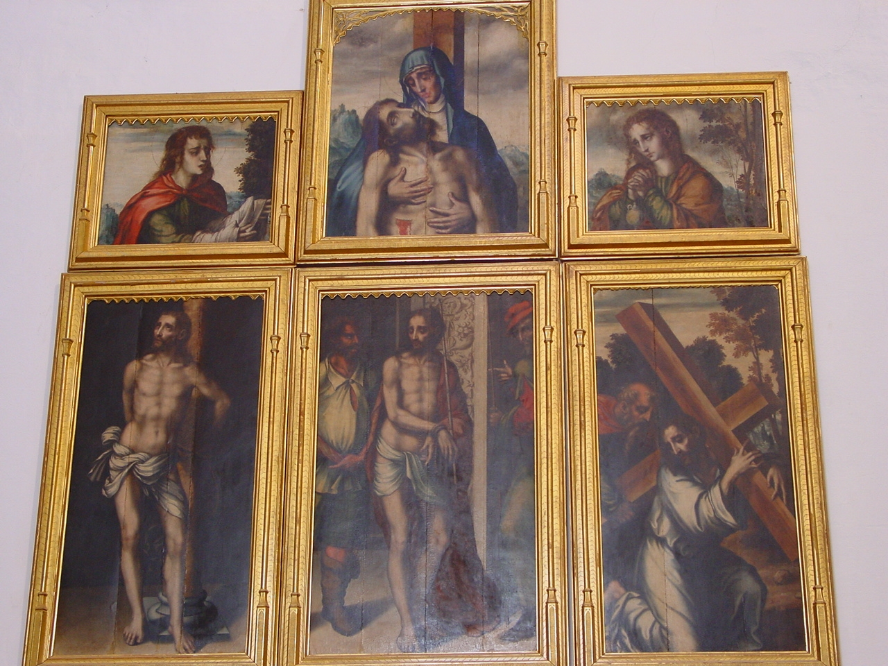 Tablas de Luis de Morales, situadas en la Iglesia Parroquial de Santa Catalina en Higuera la Real, Badajoz.